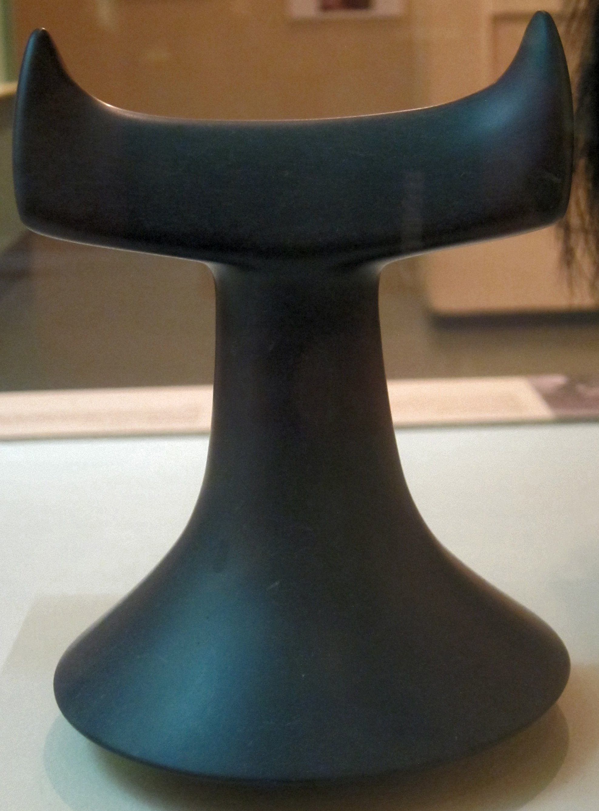 Breadfruit pounder, French Polynesia, Tahitian people, polished basalt, Honolulu Academy of Arts